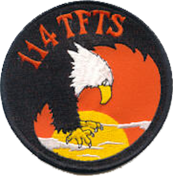 114th Tactical Fighter Training Squadron - Emblem